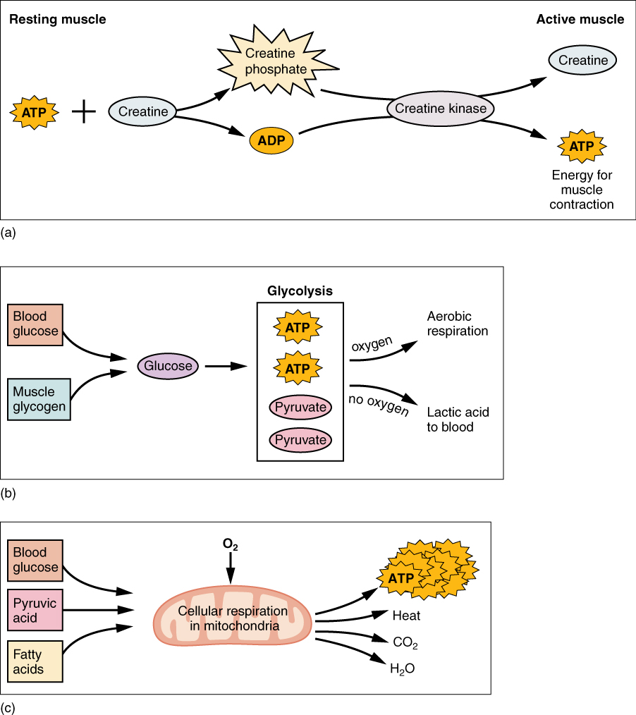 Version 8.25 from the Textbook OpenStax Anatomy and Physiology Published May 18, 2016